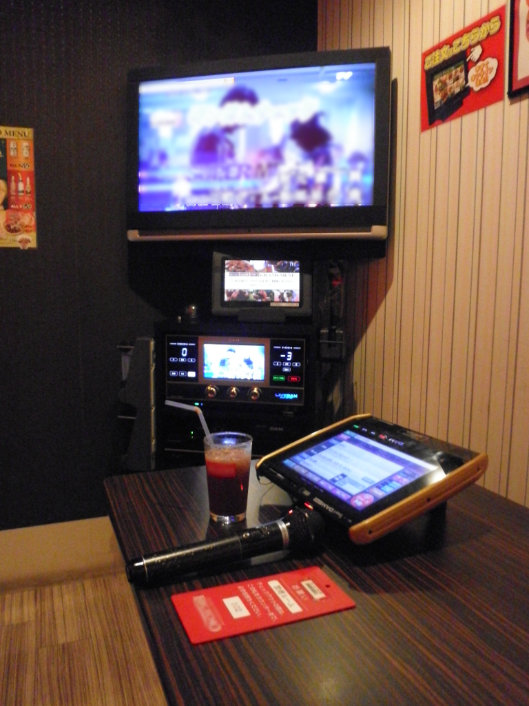 Hitokara at Karaoke-Box.